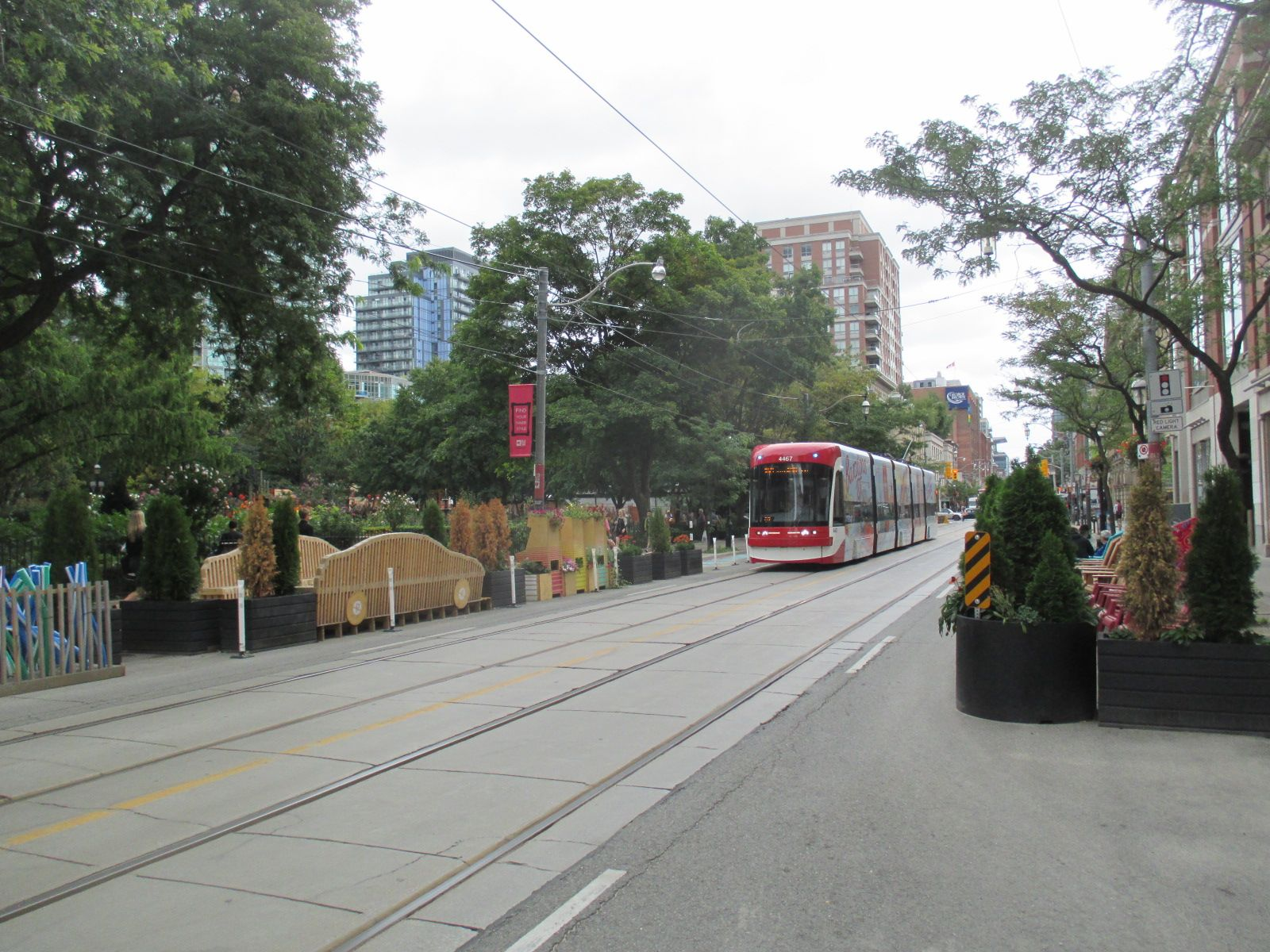 Planters, patios and artwork occupy the curb lanes as automobile traffic is restricted to improve streetcar service during the King Street Pilot Project